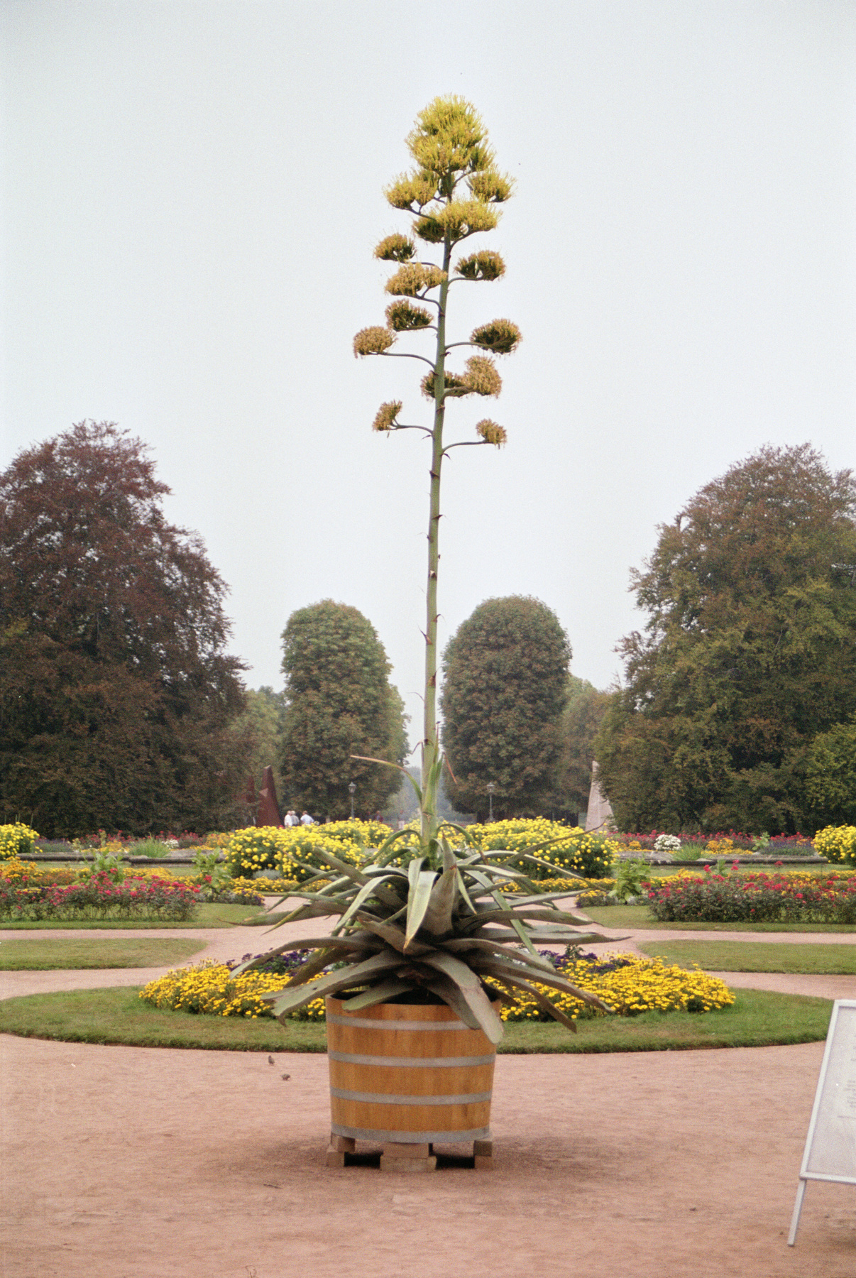 self taken picture, taken in late summer or autumn 1999 picture taken in the park of castle Pillnitz near Dresden, Germany it shows some kind of Agave, not sure which one de: selbst fotografierte Agave im Schloßpark von Pillnitz möglicherweise Agave americana oder deserti